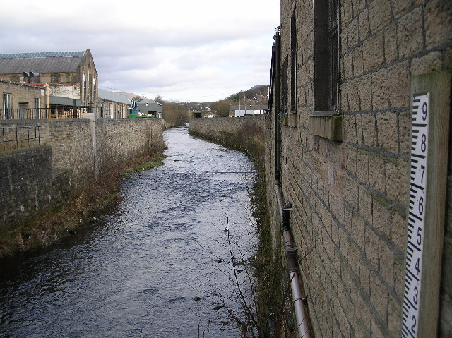 River Etheroe, Hollingworth, Derbyshire. looking northeast